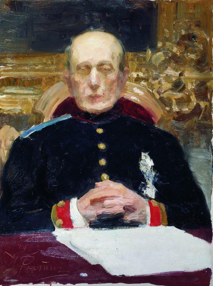 Portrait of Russian statesman and jurist Konstantin Petrovich Pobedonostsev. Study for the picture Formal Session of the State Council